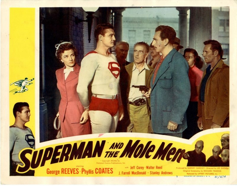 Colored lobby card for the 1951 theatrical feature "Superman and the Mole Men" featuring George Reeves and Phyllis Coates. This image is assumed to be in the public domain as no copyright notice is in evidence.